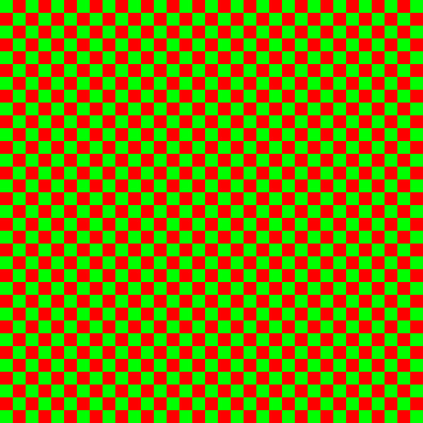 The image shows the mosaic-based color additive synthesis. If the fine mesh of red and green areas is viewed at a distance, the individual colors are not seen; instead, a yellow appears